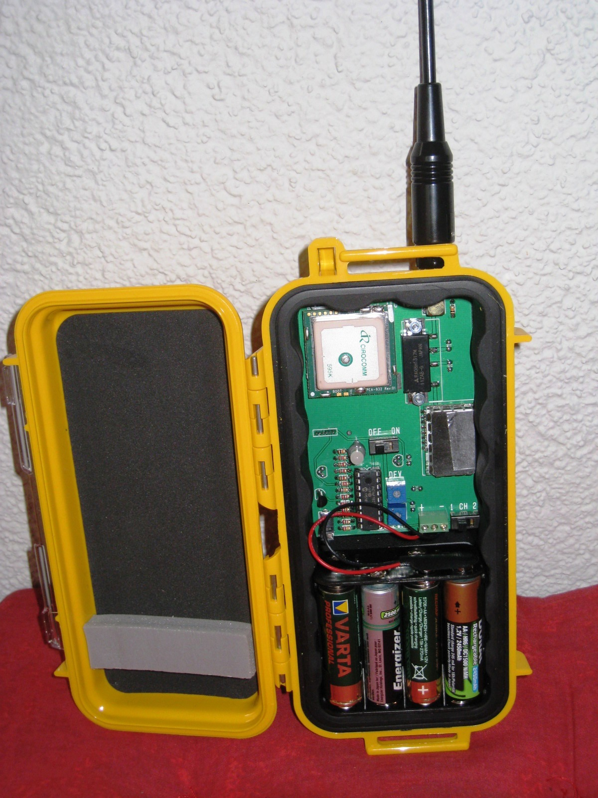 amateur radio APRS tracker, with GPS receiver, TNC and VHF transmitter